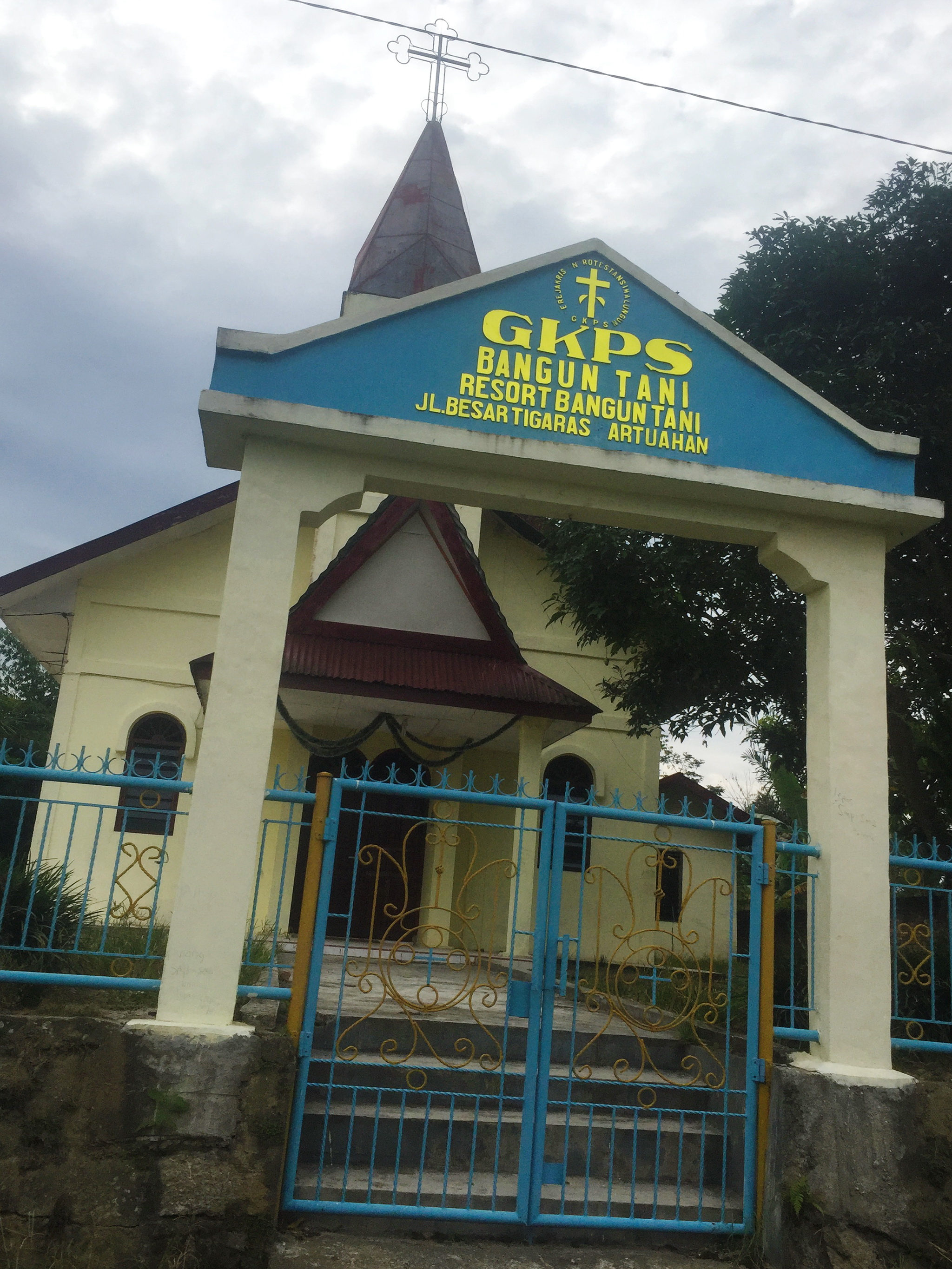 GKPS Bangun Tani, Church in Partuahan, Dolog Masagal, Simalungun